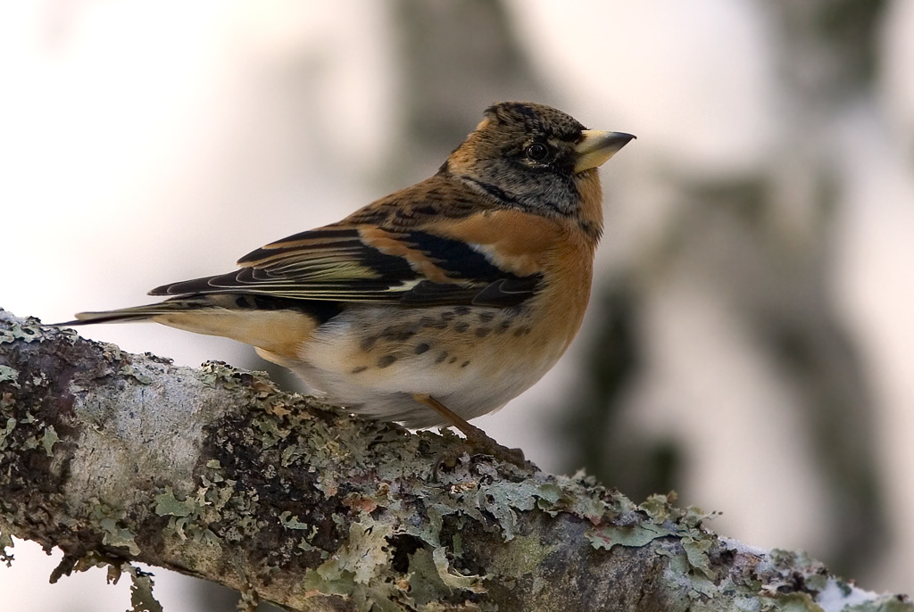 Brambling,male, winter. Fringilla montifringilla , finch. Norwegian:bjørkefink. Photo by Per Harald Olsen